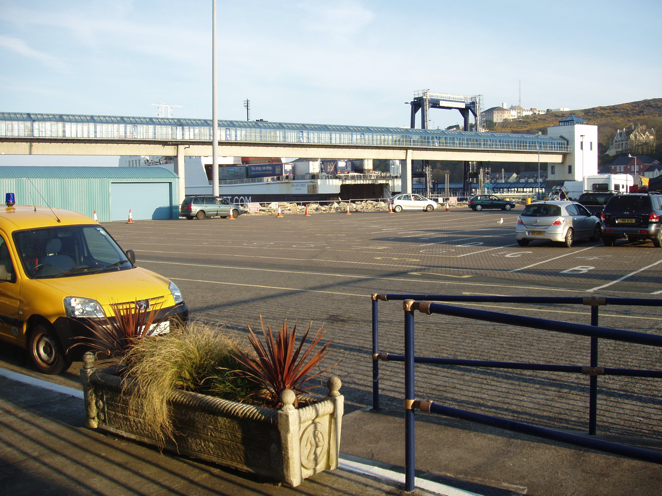 Circus Beach Marshalling Area, Douglas Harbour, Isle of Man. Cars are marshalled through the vehicle assembly area to the awaiting Isle of Man Steam Packet Company ship MS Ben-my-Chree. In the background is the elevated, enclosed walkway which connects passengers from the sea terminal to Edward Pier. At the pier can be seen the aft end of the MS Ben-my-Chree loaded with trucks.